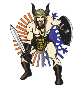 Warriors of the North logo for the 319th Air Base Wing.